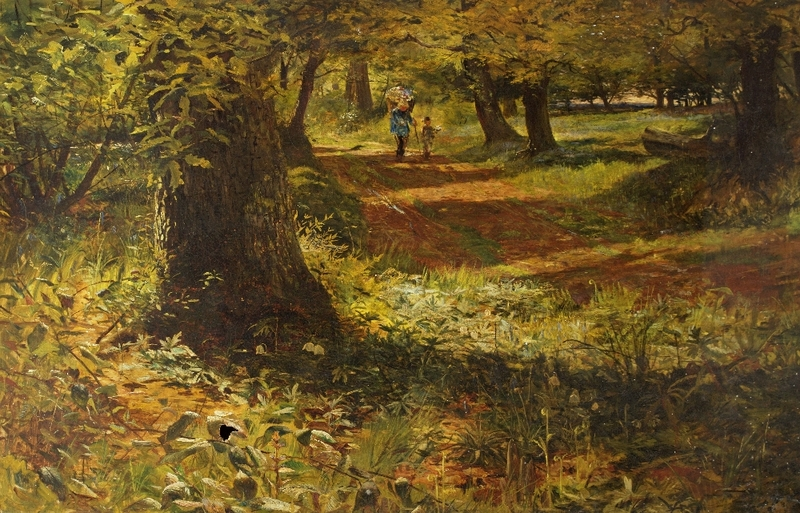 Oil on canvas painting by William Morrison Wyllie. 57.5 x 90 cm; in the Russell-Cotes Art Gallery & Museum.